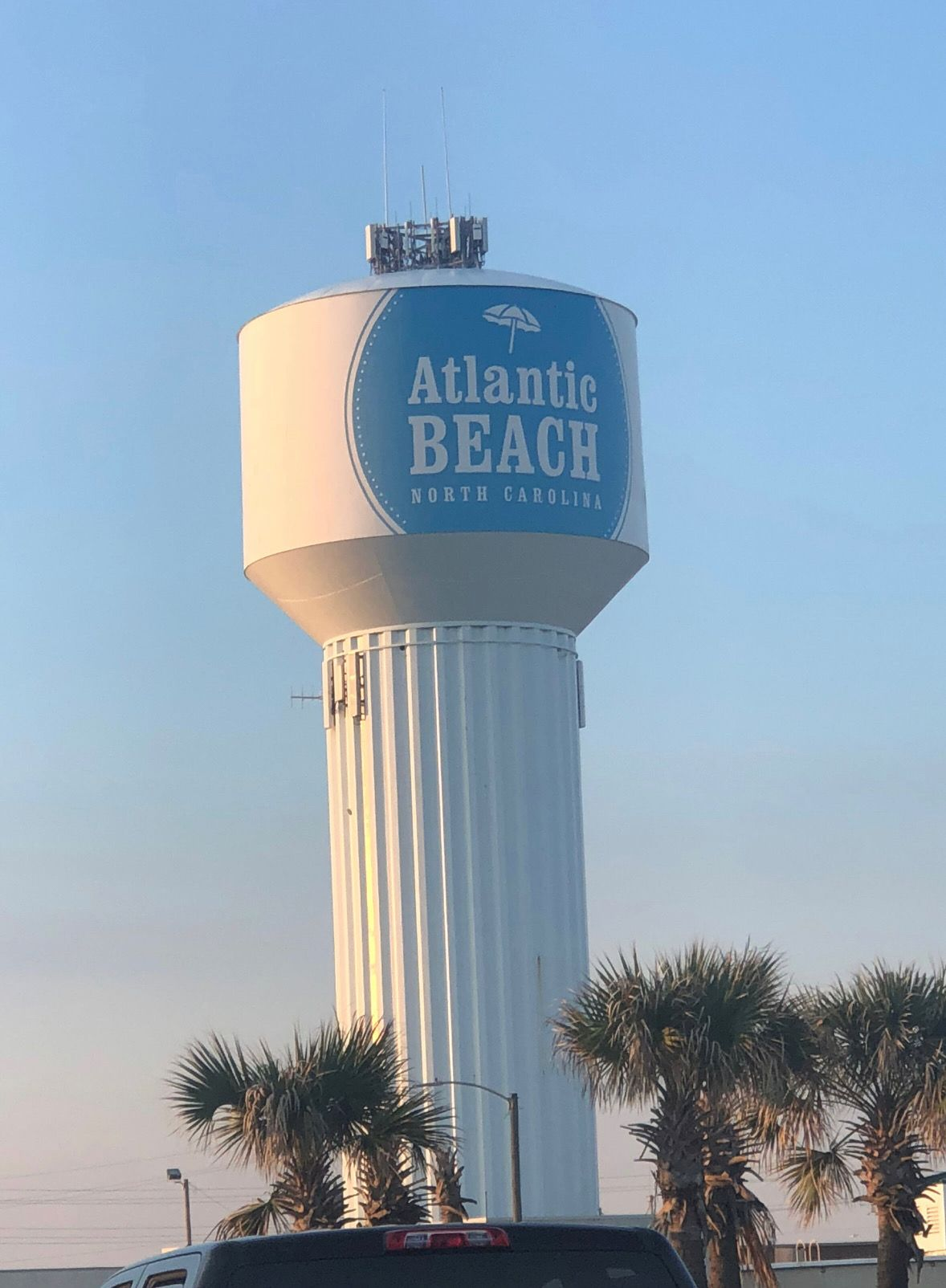 The new watertower of Atlantic Beach, NC